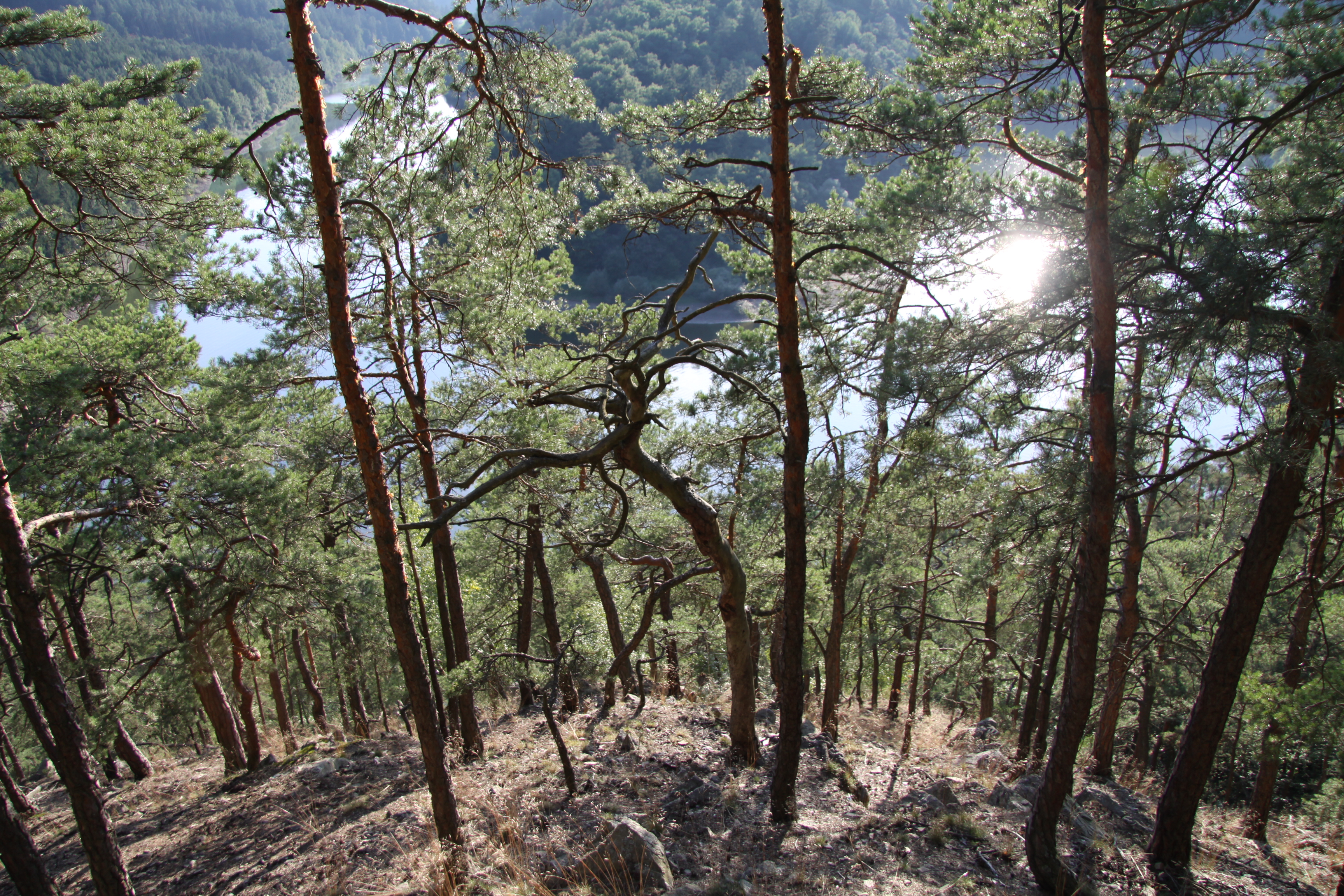 Natural reservation called "Výří skály u Oslova" near Tukleky village on the bank of Otava River, Písek District, Czech republic.